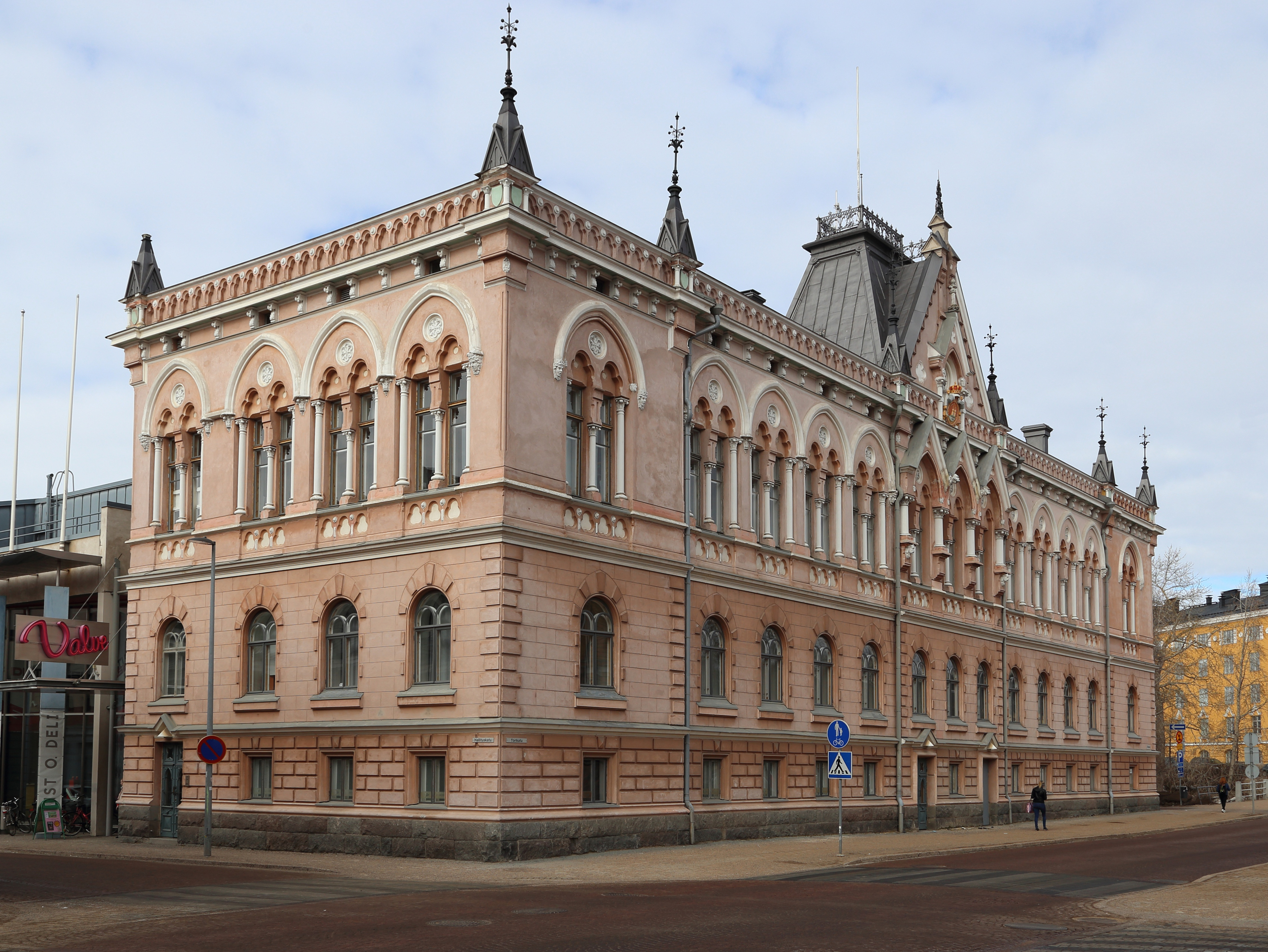 The Cultural Centre Valve in Oulu, Finland.